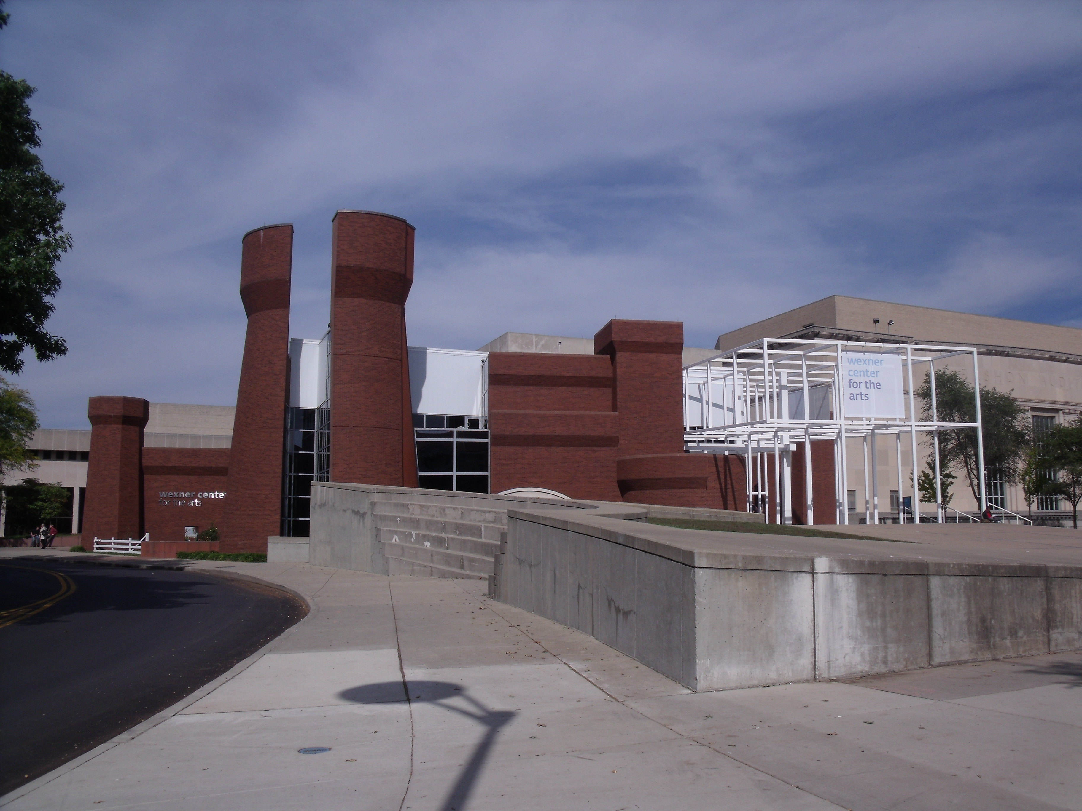 The Wexner Center for the Arts